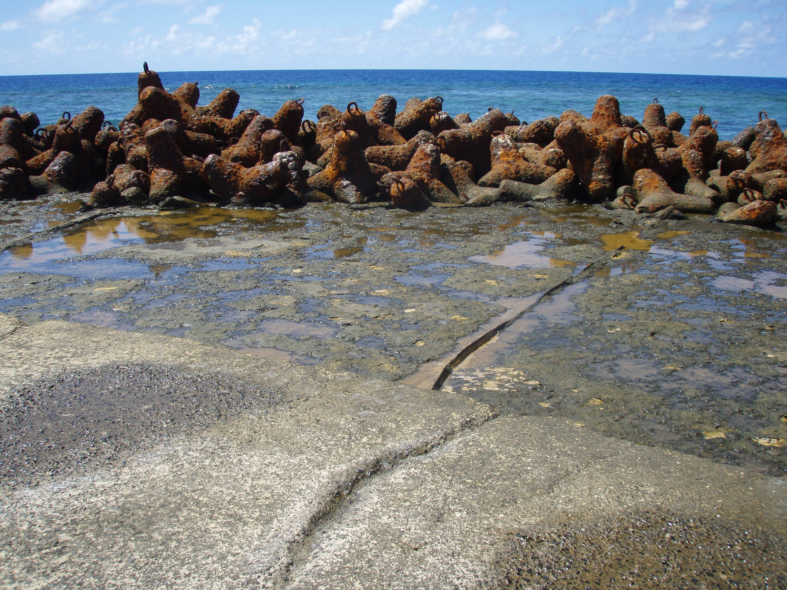 steel breakwaters and concrete walls in Okinotorishima